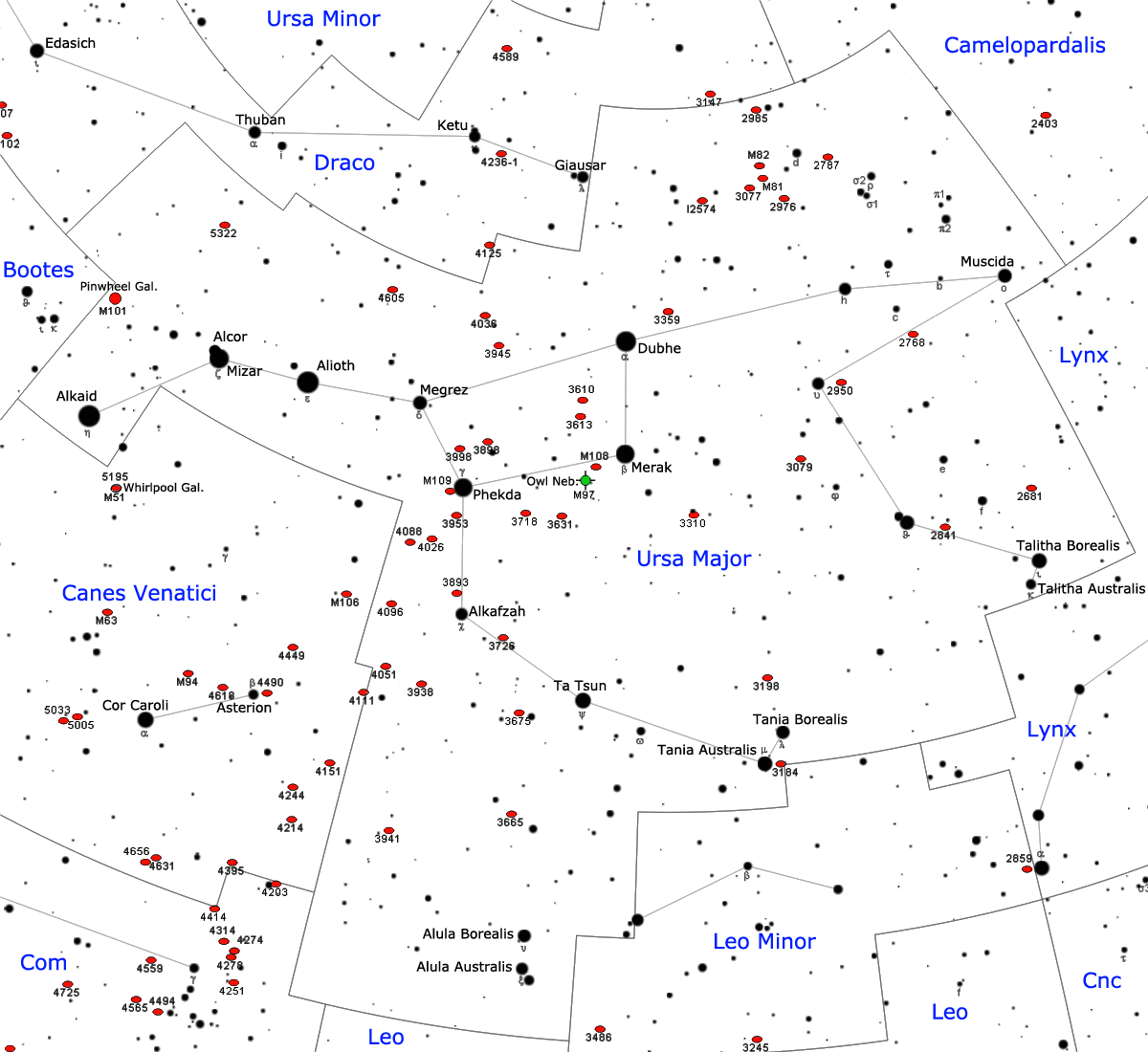 Map of Ursa major